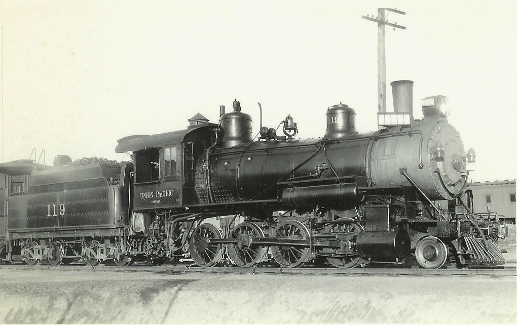 Postcard photo of Union Pacific locomotive #119 at LaSalle, Colorado in 1930. The photo was taken by noted railroad photographer Otto Perry. Perry earned his living as a mailman in Denver; photographing trains was a hobby he pursued for many years. Perry was also known to travel outside of the Denver area to photograph trains. Like many other railfans who take photos, Perry had prints made up as postcards and used a ink stamp to identify their work as these photos were shared with others who also had a hobby of photographing trains. Perry died in 1970, leaving his collection of train photos and negatives to the Denver Public Library.